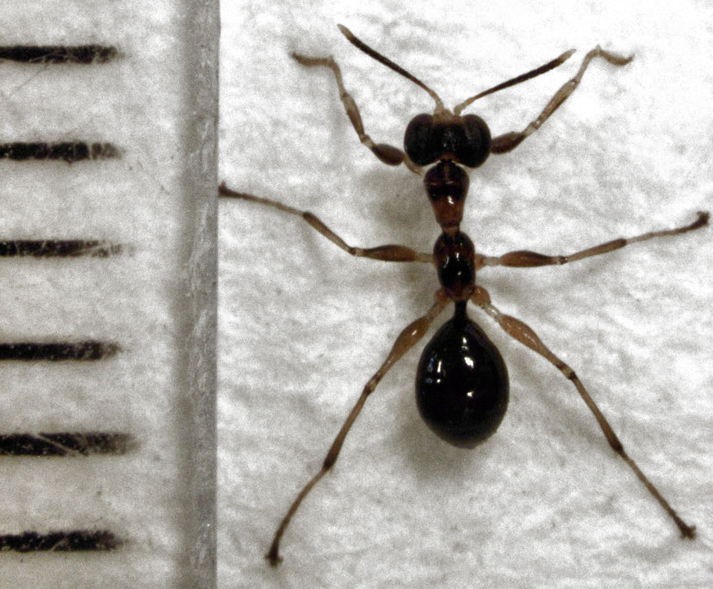 Gonatopus alpinus (adult female with ruler for scale)